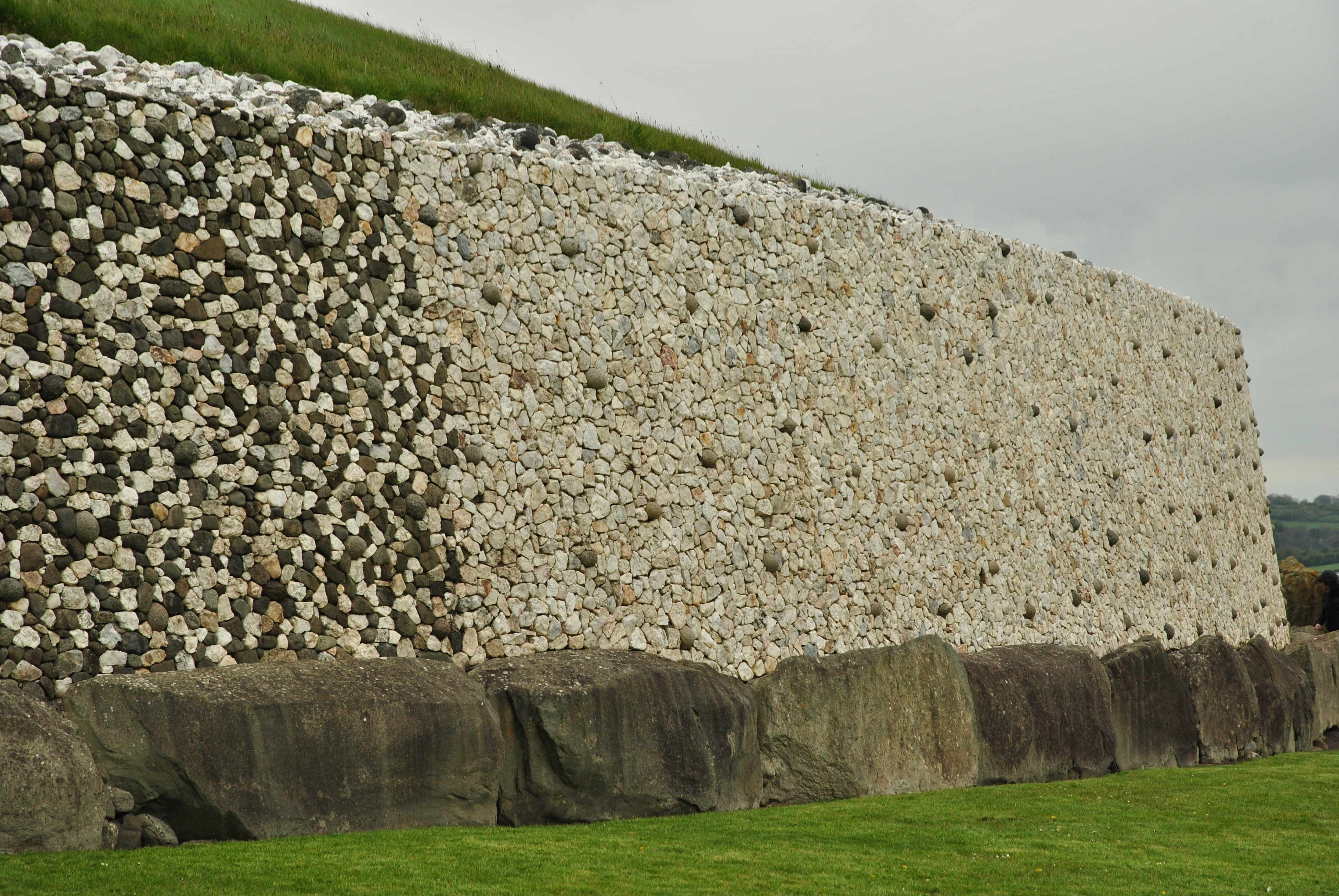 The front wall of the tomb. It was reconcontructed by plans of O’Kelly in the 1970s